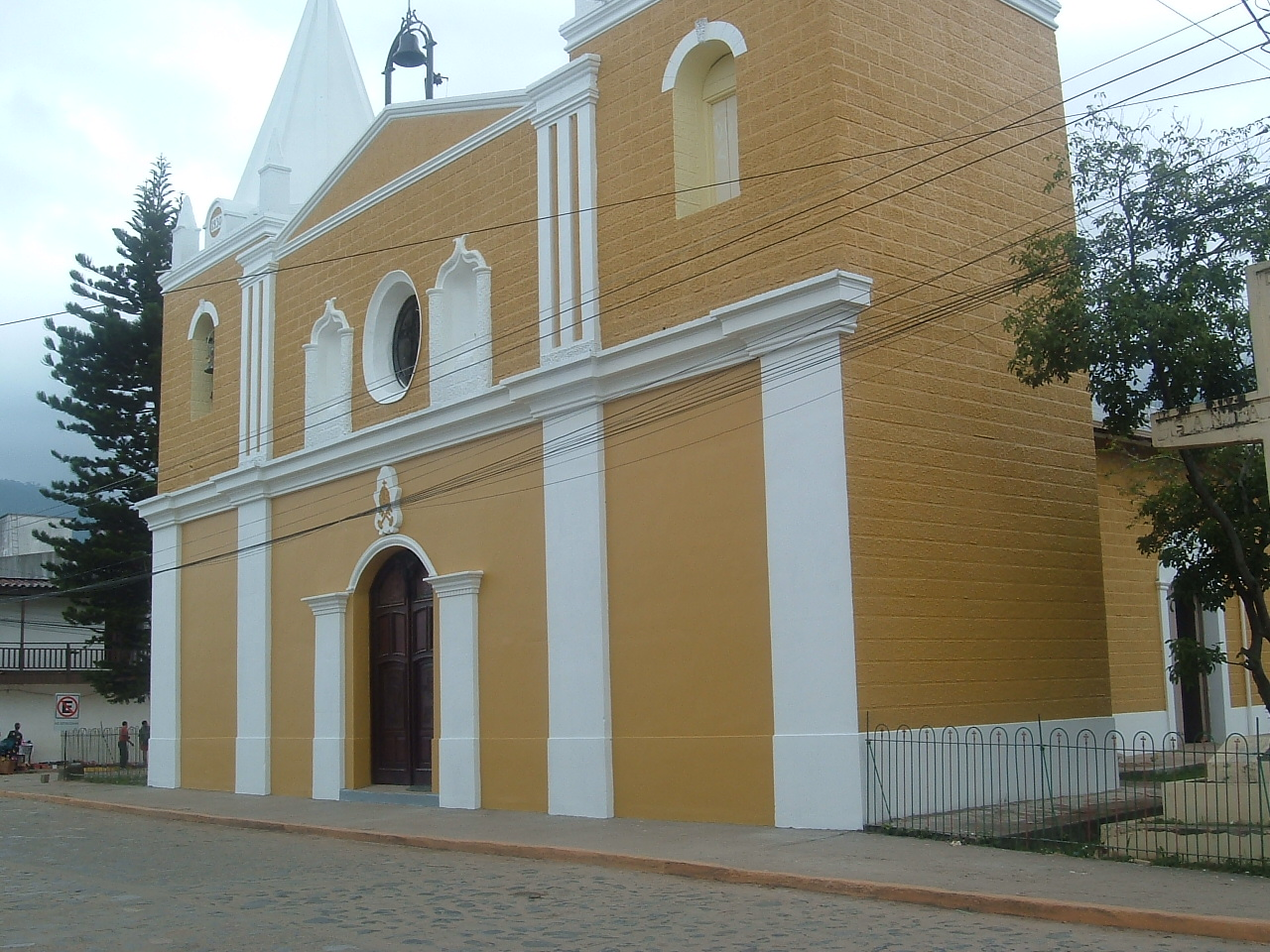 Trujillo, the cathedral, 2006